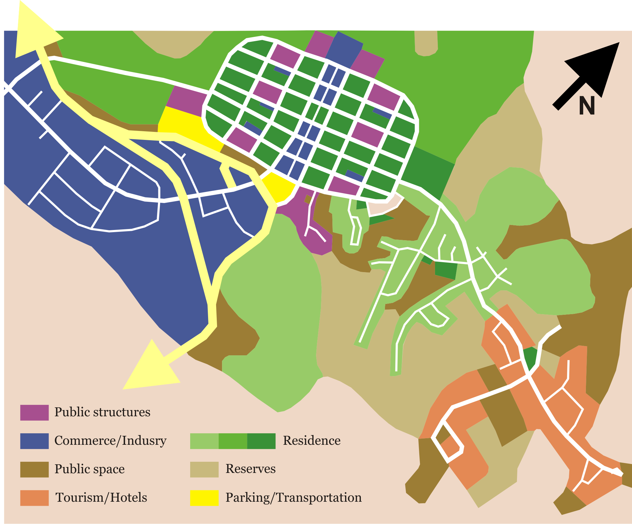 Map of the original city plan for Arad, Israel, the first city in Israel which was built according to a city plan. Source: HaNegev - Adam UMidbar (book), page 574.